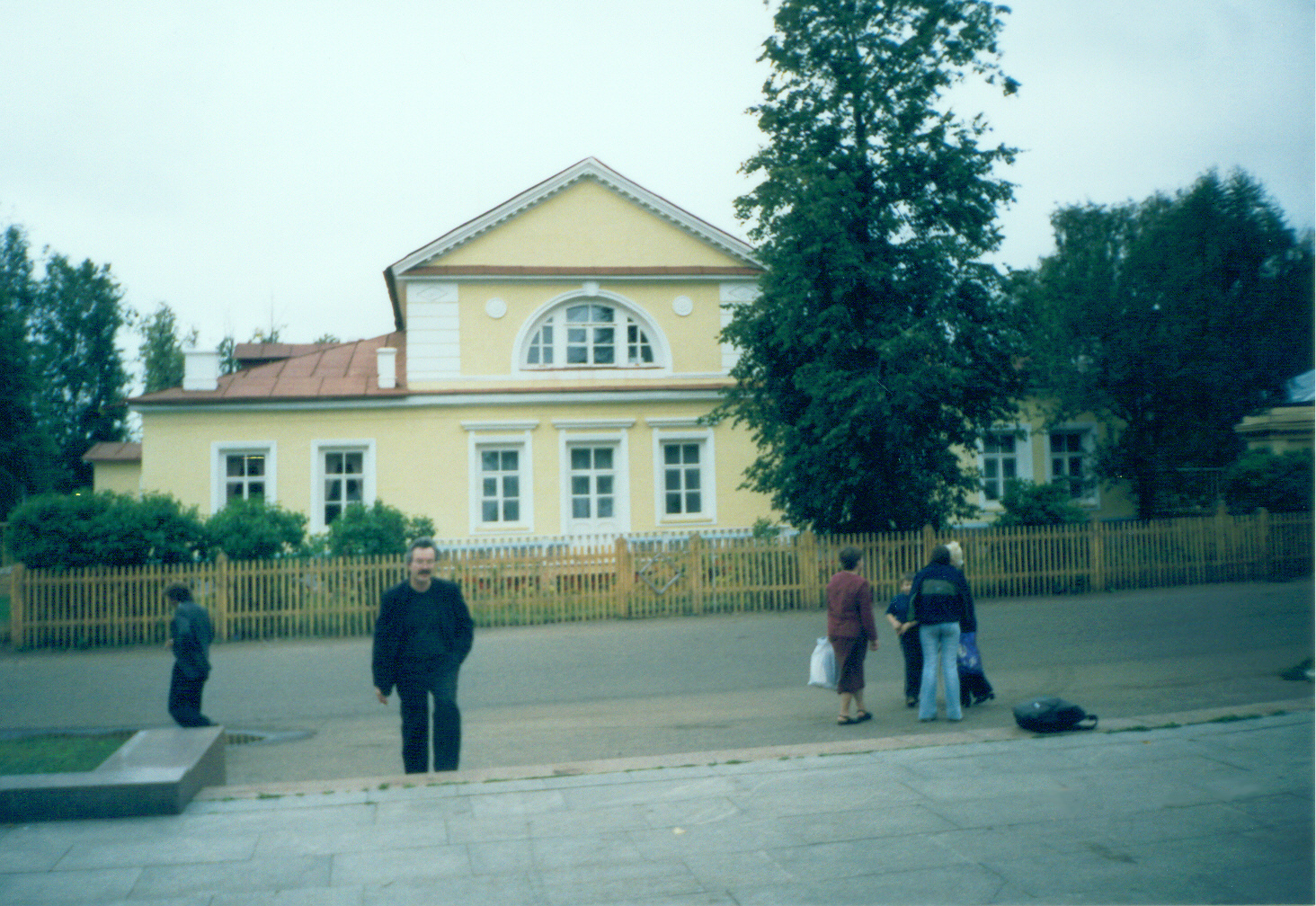 Tchaikovsky's birth house. In front of the house, walking to the photographer, v. ar-Sergi, a famous Udmurtian writer.